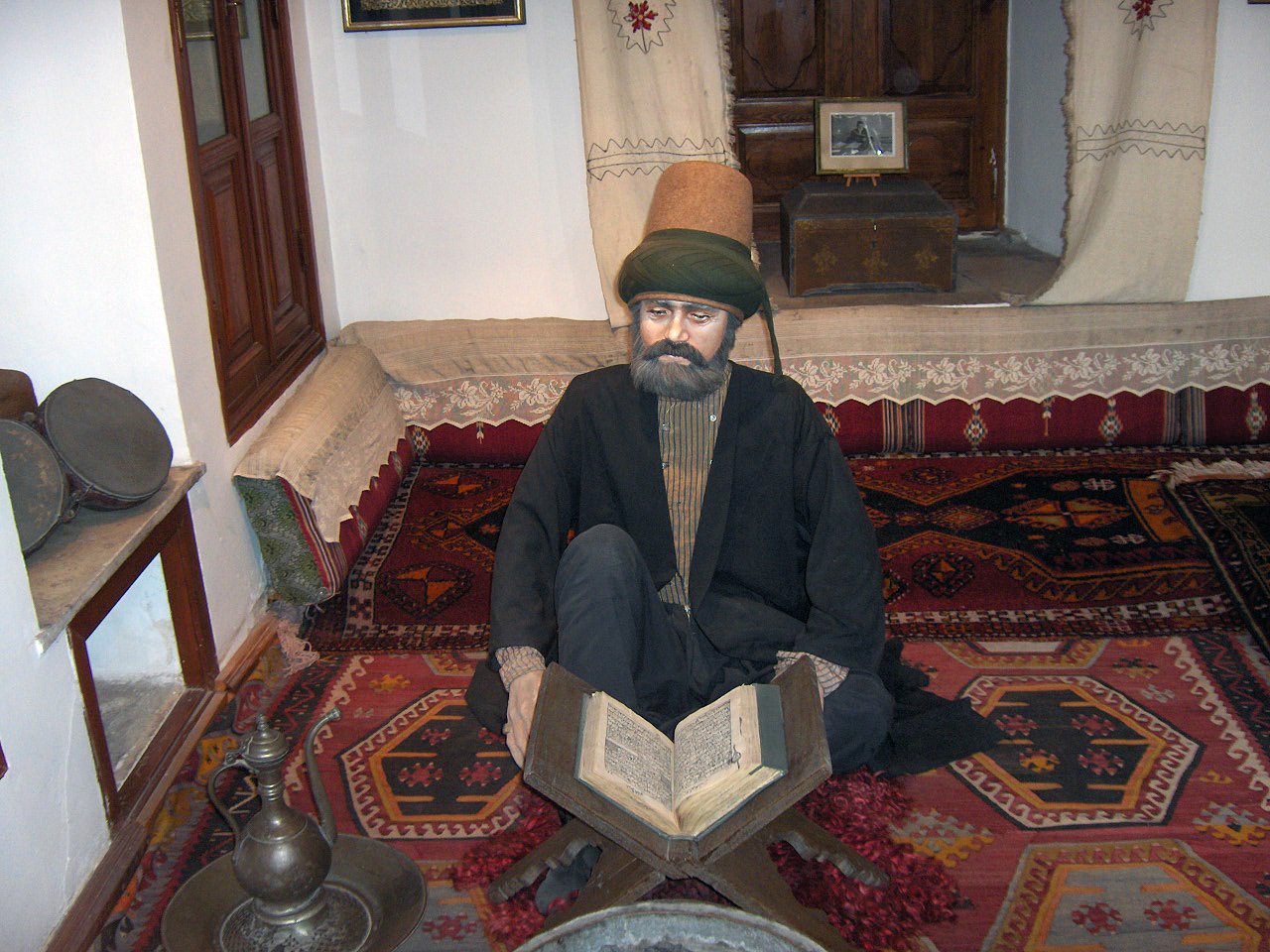 Museum recreation of a studying dervish; Mevlâna museum; Konya, Turkey